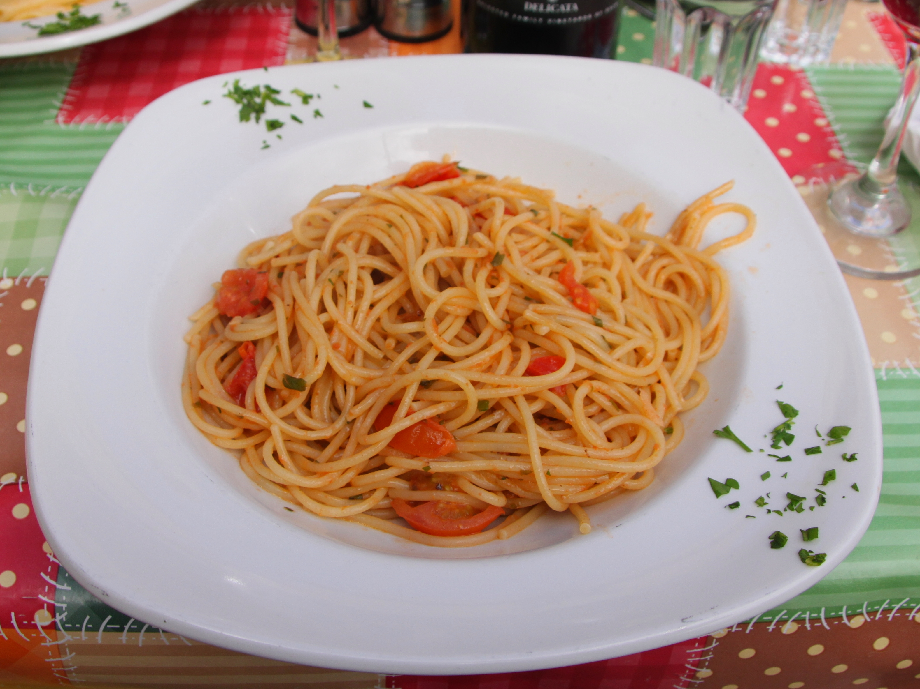 Sea Urchin Pasta is a pasta with sea urchin, often with garlic in a tomato sauce. Photographed at Tony's Sicilia Bar Valletta, Malta.